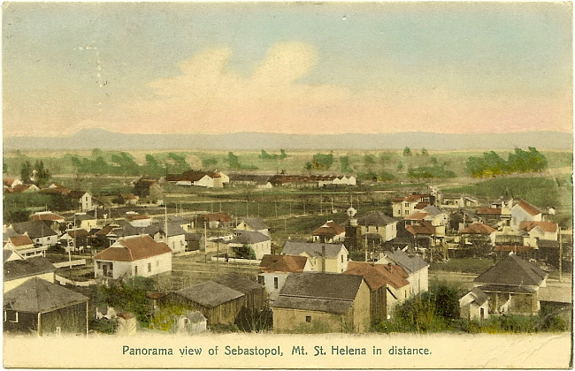 Postcard picture showing panoramic view of Sebastopol, California. EBay store Web page states: "Original, circa 1908 hand-colored postcard. Caption reads "Panorama View of Sebastopol, Mt. St. Helena in Distance". Card is postally used in 1908